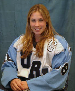 Former URI hockey player Jen Wallace